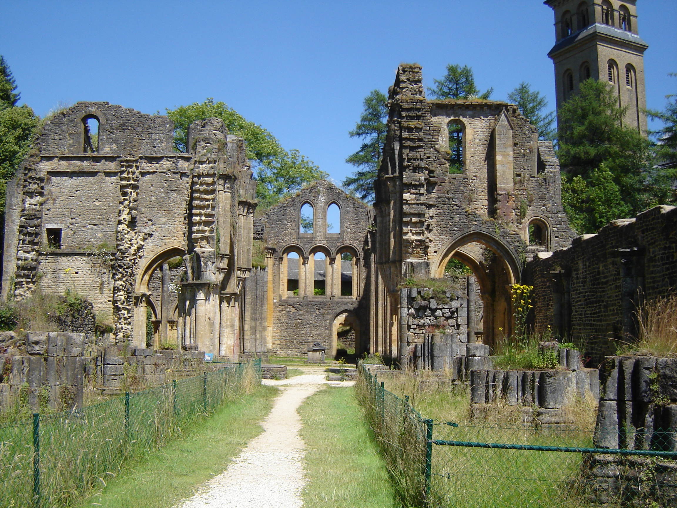 Abbaye d'Orval (Orval abbey), ruins of the old abbey. Nave of the old church. Villers-devant-Orval, Florenville, Luxembourg, Belgium